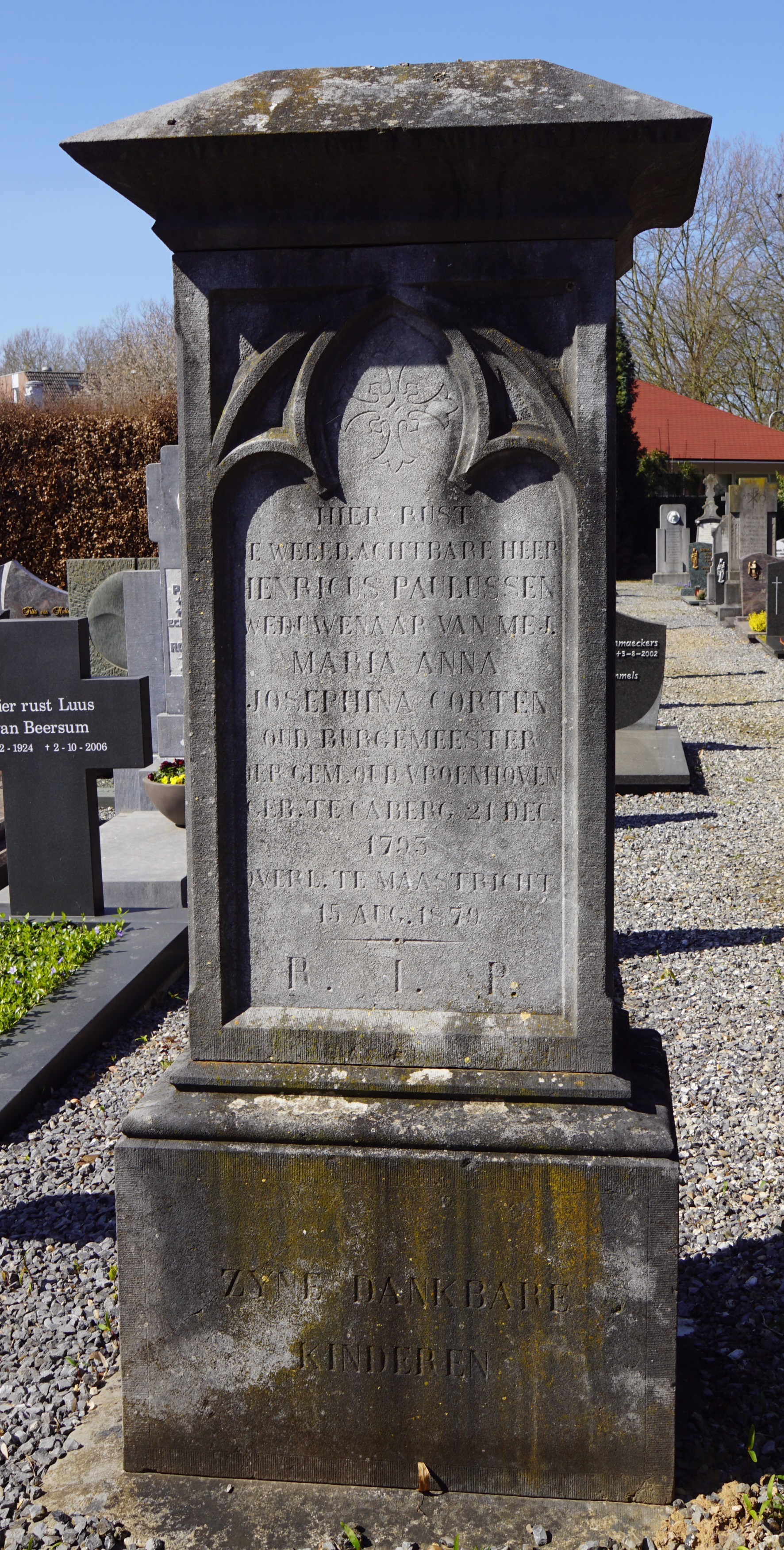 Graveslab of Henricus Paulussen, former mayor of Oud-Vroenhoven. Born in Caberg on Dec 21, 1793, and died in Maastricht on Aug 15, 1879. Cemetery of Oud-Caberg, Maastricht, The Netherlands.